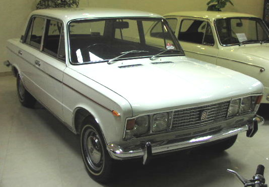 Fiat 125